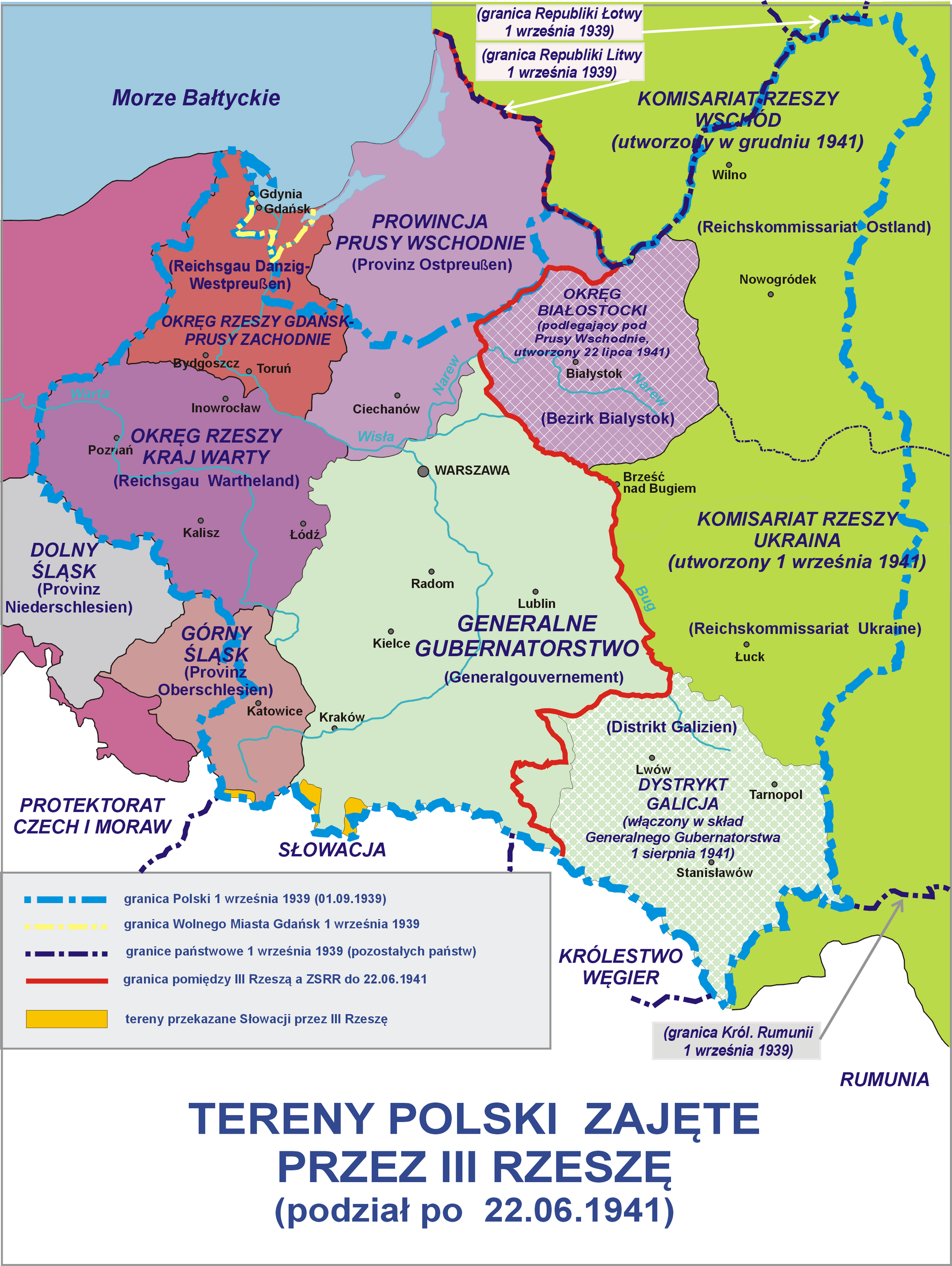 Poland occupied by Nazi Germany - after 22.06.1941